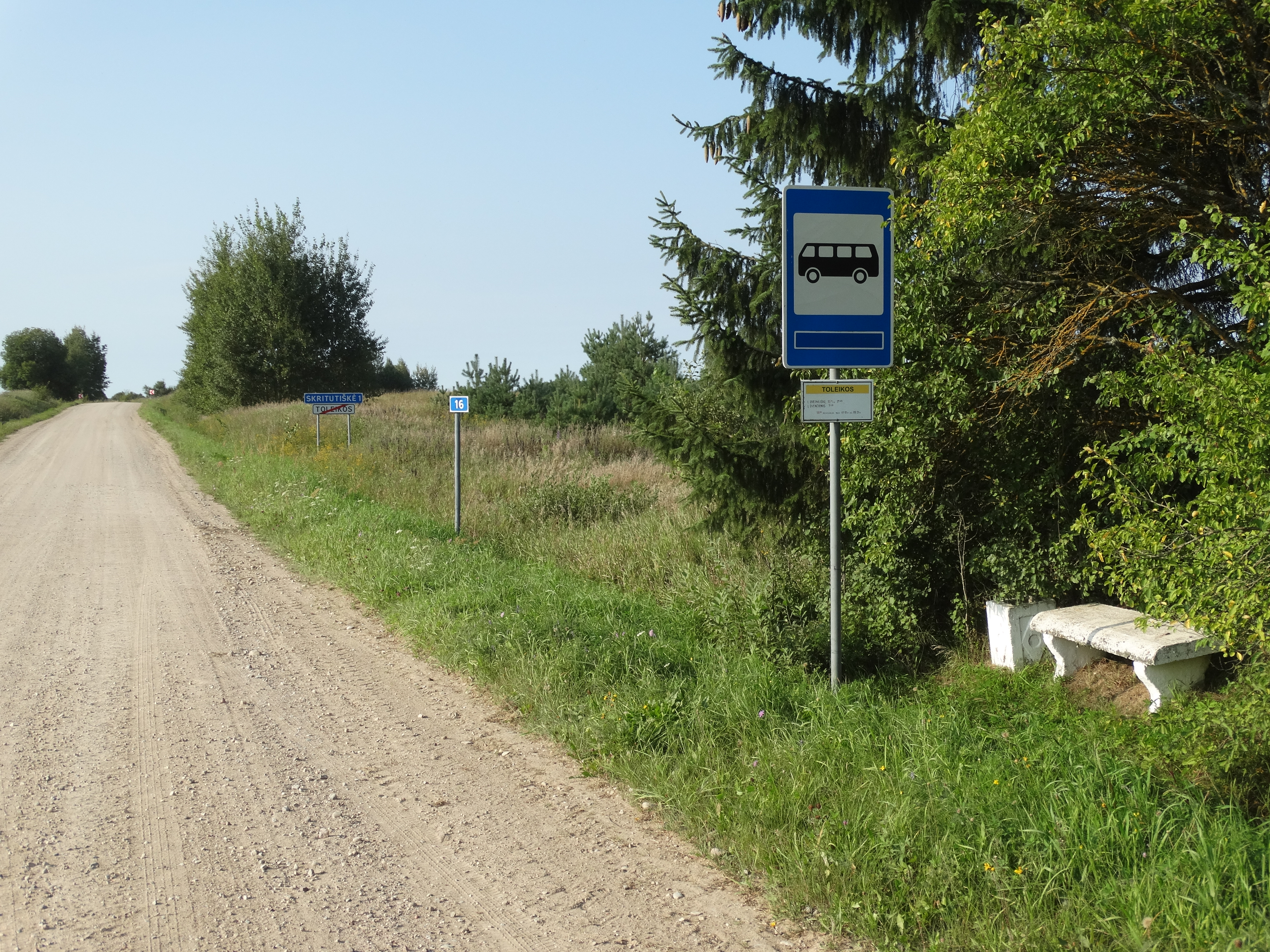 Toleikos, Švenčionys district, Lithuania